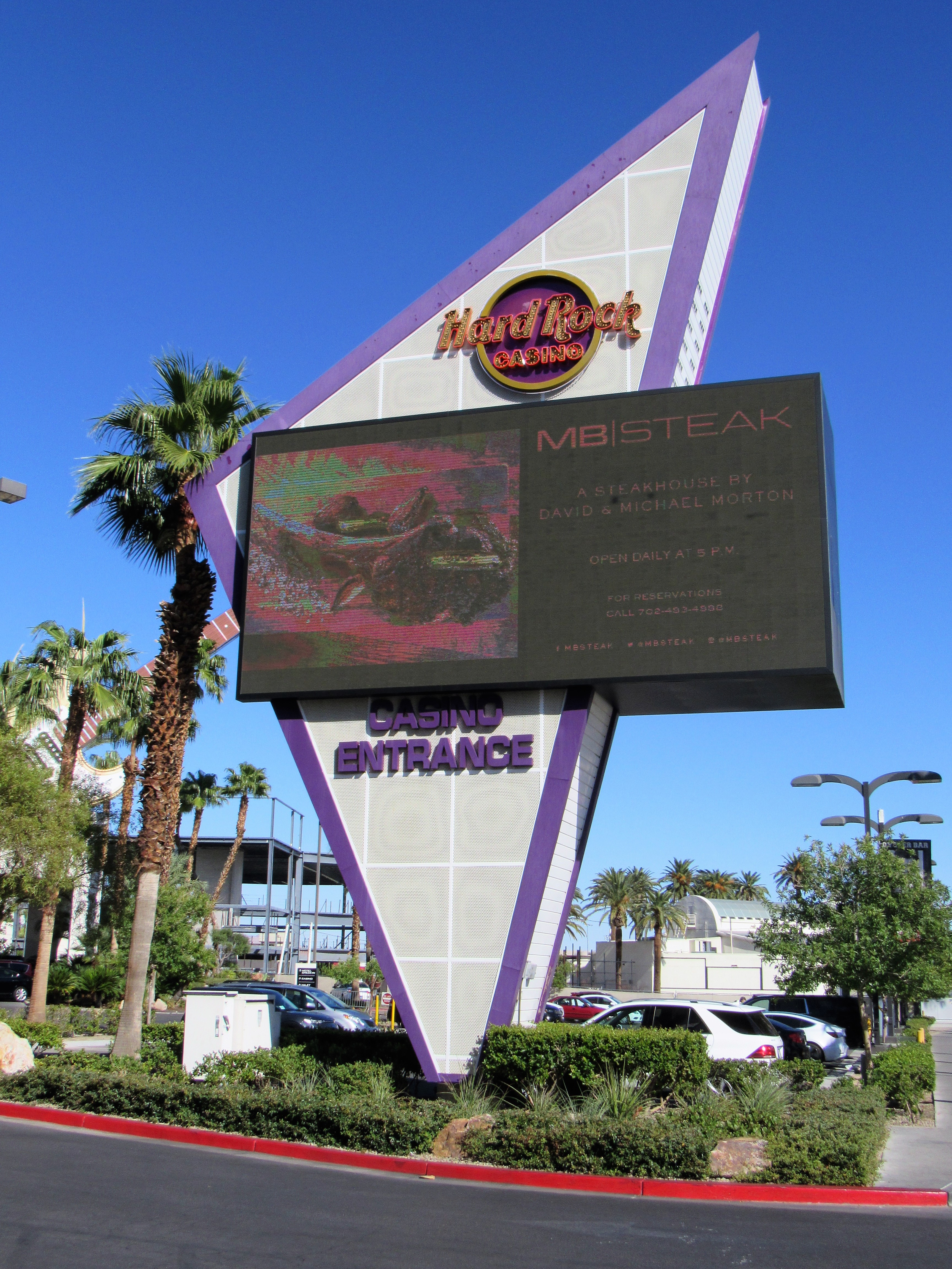 Hard Rock Hotel and Casino in Las Vegas, Nevada.